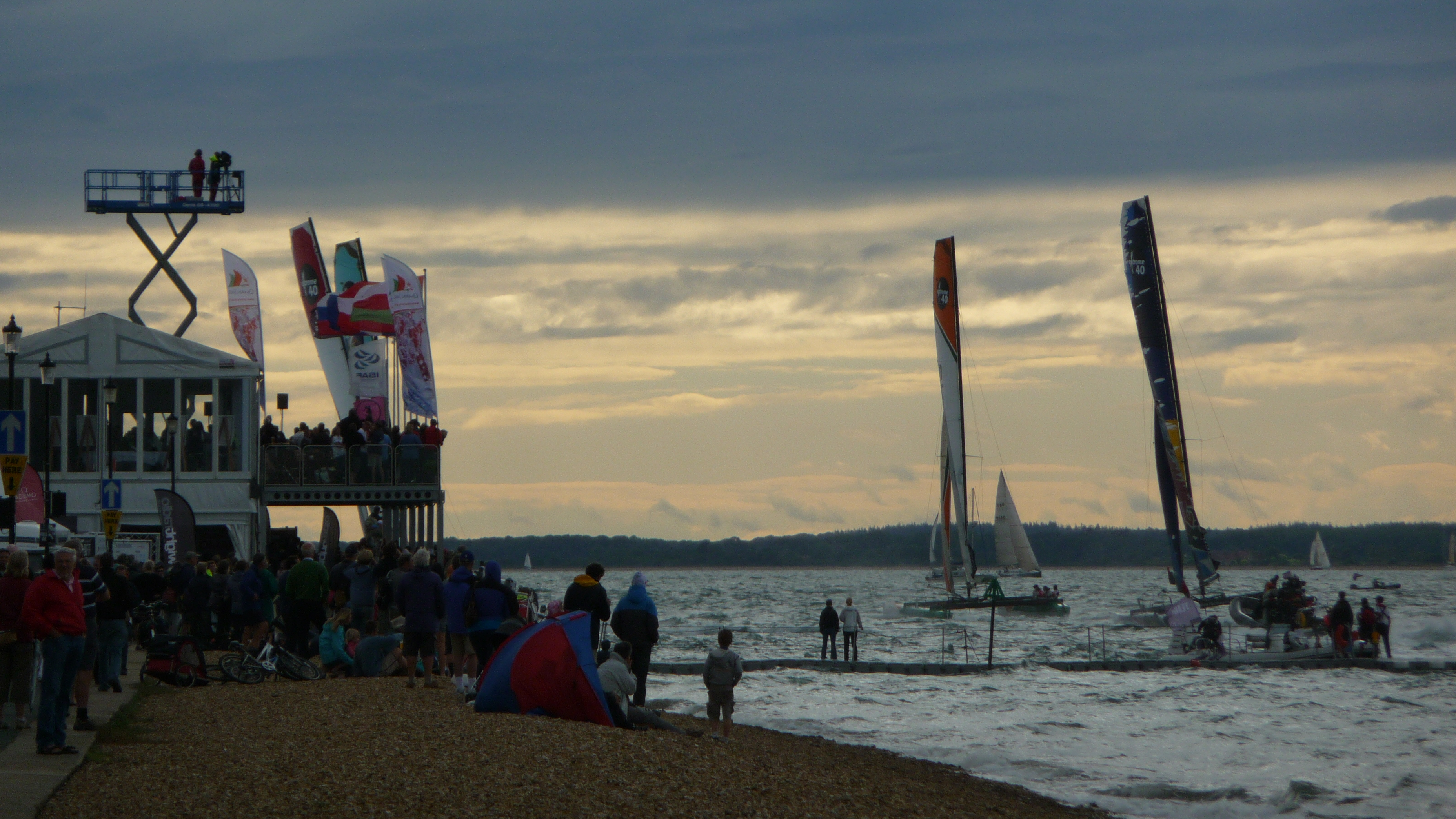 Extreme 40 class sailing catamarans, seen racing off Egypt Point, Cowes, Isle of Wight, during Cowes Week in 2010. Cowes was a stage on the Extreme 40 races for 2010. There was a race nearly every day during Cowes Week, and races were run off Egypt Point (by the Extreme 40 tent), and were separate from the standard Cowes Week races (that start from the Royal Yacht Squadron).